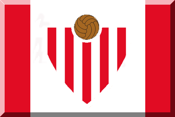 Colours of Spanish football team Sevilla F.C.